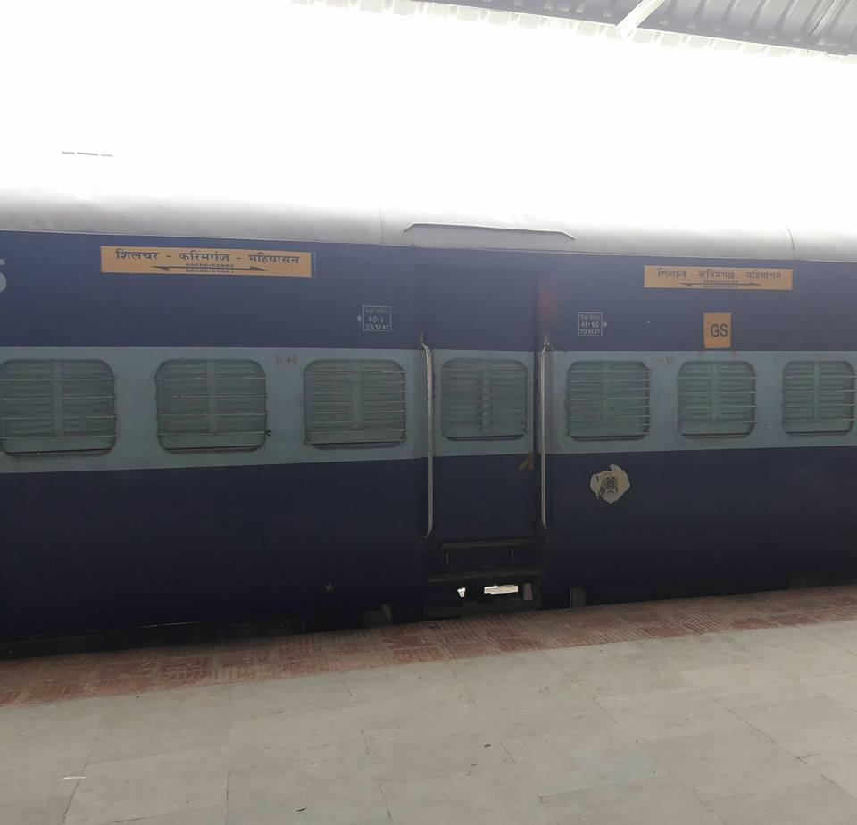 Mahishashan